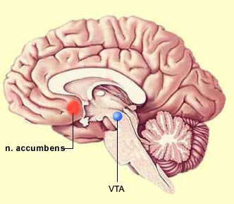 Position of the nucleus accumbens and Ventral Tegmental Area (VTA).